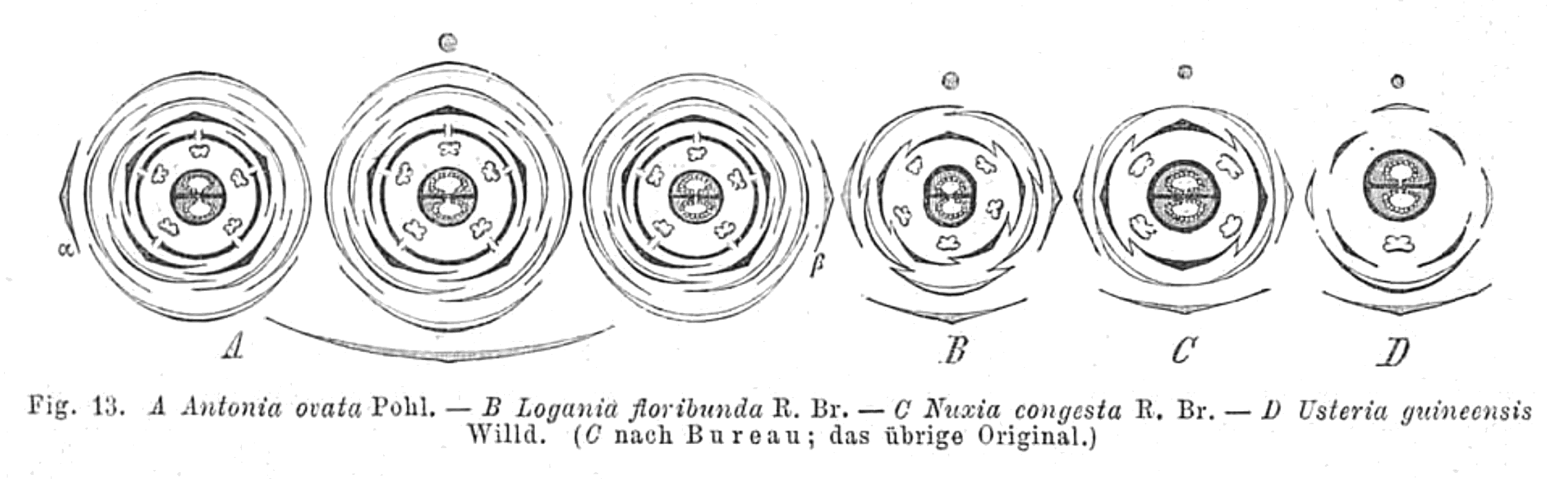 Loganiaceae flower diagrams.